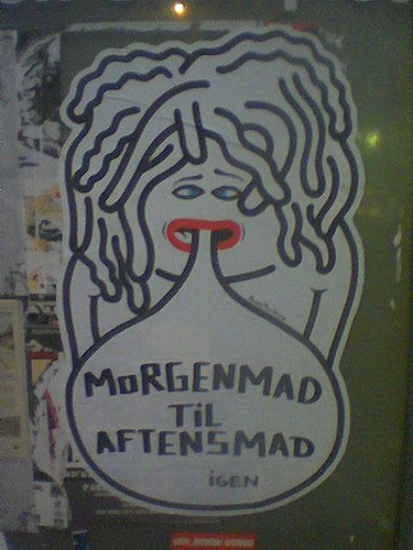 Picture of poster found on the street